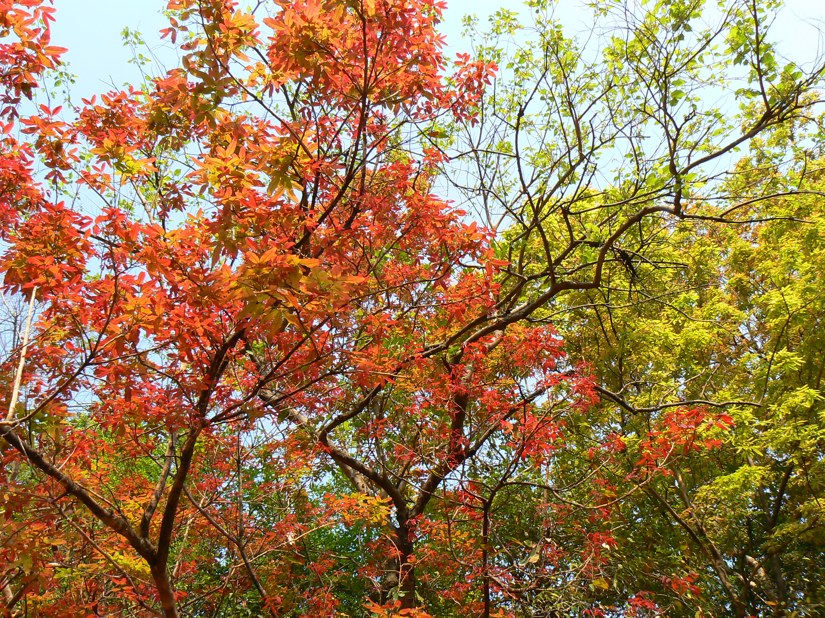 Sapindaceae (soapberry family) » Schleichera oleosa SCHLE-eye-cher-uh -- named for J. C. Schleicher, Swiss botanist oh-lee-OS-uh -- meaning, oily or rich in oil commonly known as: Ceylon oak, honey tree, lac tree, macassar oil tree • Gujarati: કુસુમ kusum • Hindi: कुसुम kusum, कुसुम्ब kusumb • Kannada: chakota, sagade • Konkani: कोसिंब kosimb • Malayalam: ദൂതളം duuthalam, പൂവം puuvam, പൂവണം puuvanam • Marathi: कोशिंब koshimb, कुसुंब kusumb • Sanskrit: कुसुंभ kusumbha • Tamil: கொஞ்சி konchi, கும்பாதிரி kumpatiri • Telugu: kosangi Native to: India, Sri Lanka, southeast Asia ... medium to large size tree upto 20m in height, deciduous (sometimes evergreen), often fluted, with smooth, grey or pale brown bark, reddish inside. ... leaves fall during December-January ... leafless for a short time ... new leaves in various shades of red, light and dark green appear during March to April. References: Flowers of India • Forestry Compendium Blogged at: Slice of the Day by Vasant M. Salian